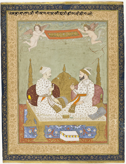 India, Rajasthan, Amber, dated 1732 Drawings; watercolors Opaque watercolor, gold, and ink on paper Image: 9 7/8 x 7 1/8 in. (25.09 x 18.1 cm); Sheet: 13 1/4 x 10 in. (33.66 x 25.4 cm); Mat: 23 1/2 x 16 3/8 in. (59.69 x 41.59 cm) South and Southeast Asian Acquisition Fund (M.2001.24) South and Southeast Asian Art